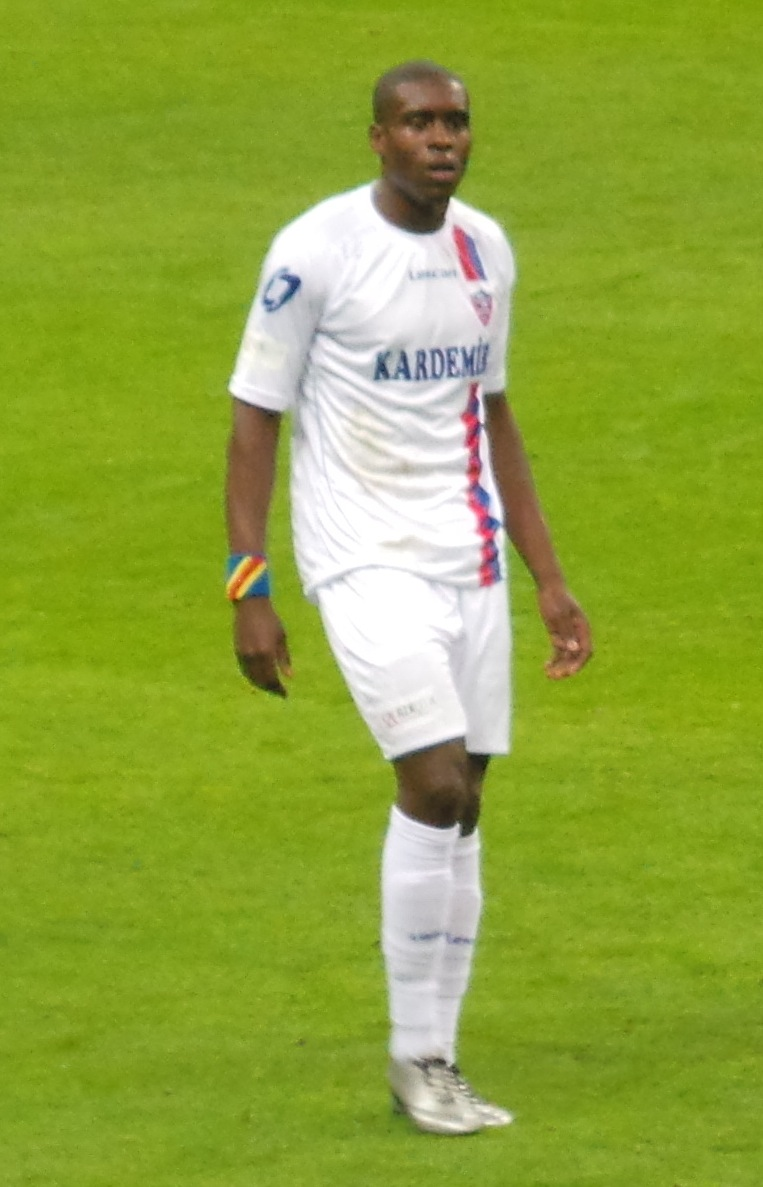 Mabiala against GS